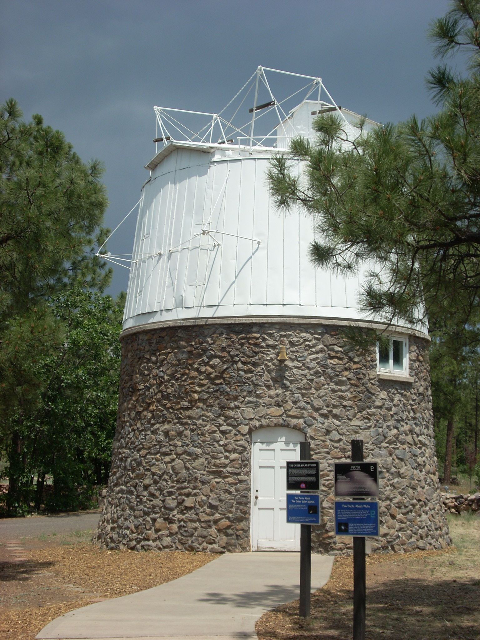 Clyde William Tombaugh used a 13-inch telescope (an astrograph, to be precise) within this building to image Pluto.